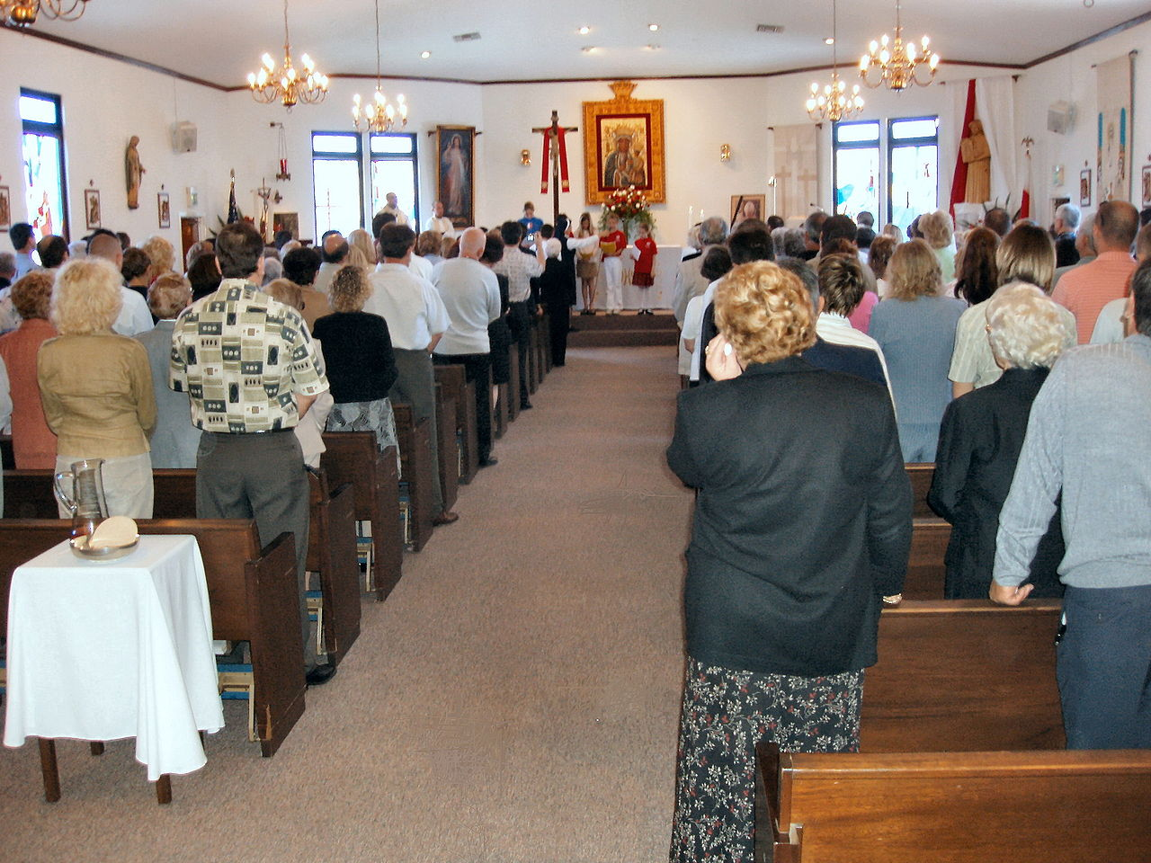 Pope John Paul II Polish Center in Yorba Linda, CA - inside